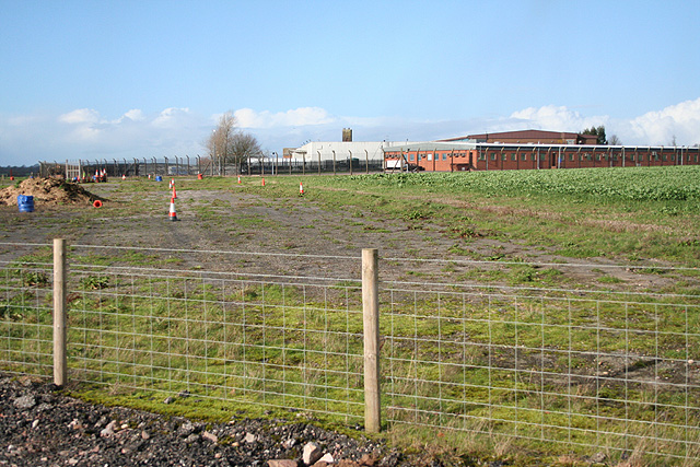 Churchstanton: on Culmhead airfield This site, together with Dunkeswell and Upottery (also now known as Smeatharpe), provided the three wartime airfields on the Blackdown Hills, constructed in the 1940s. The buildings here are part of Culmhead Business Park, developed from the site of a post-war radio station, and standing on the intersection of two wartime runways. Looking north west